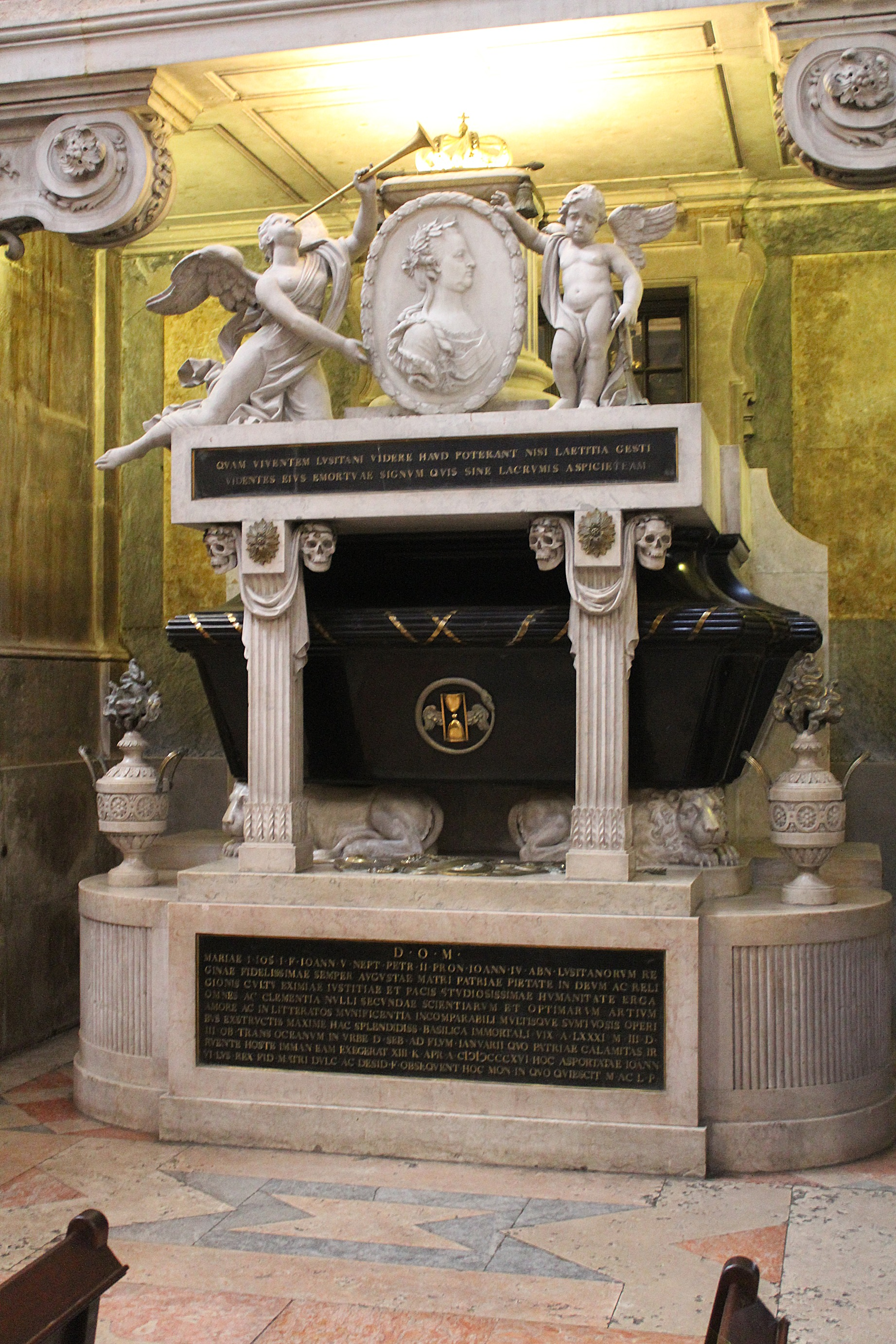 Lisbon, Basílica da Estrela, Tomb of Maria I of Portugal